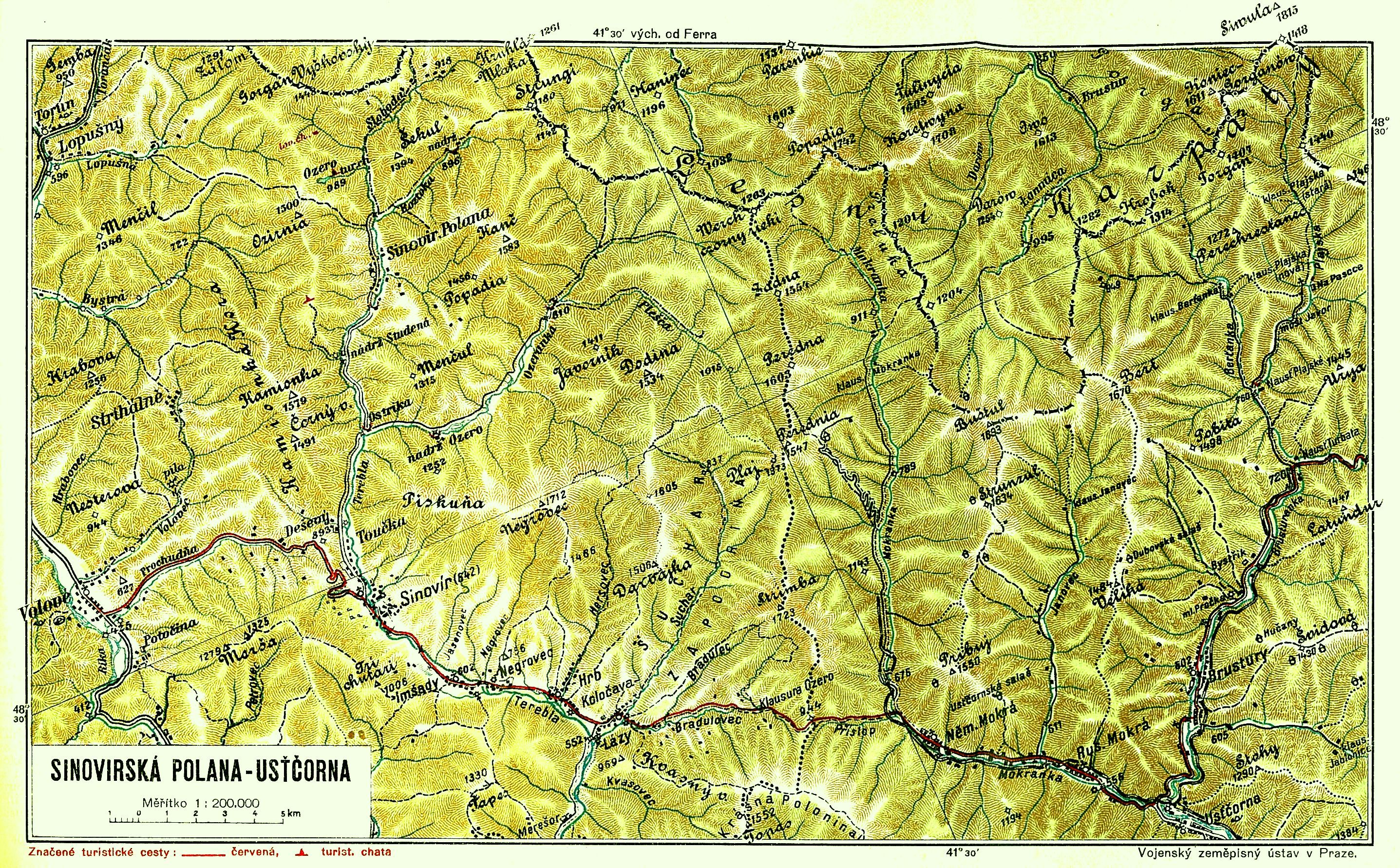 Map of the Sinovirská polana (now in the Ukraininan part of the Carpathian Mountains) and Usťčorna (now Ust-Chorna in Ukraine) in 1933. The descriptions are in Czech.